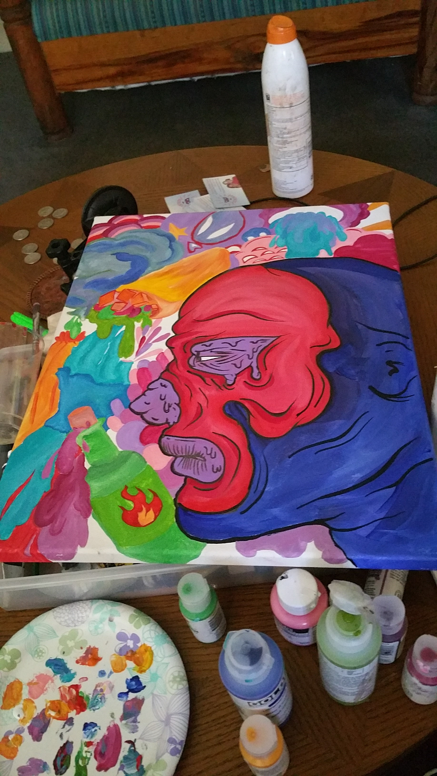 This image demonstrates blending with acrylic paint. Note that no retarders were used.